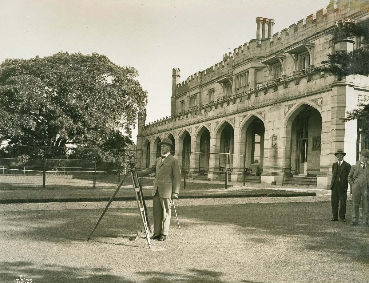 His excellency Sir Dudley de Chair at Point E (Government House) from the Sydney Harbour Bridge photo albums. Dated: 17/03/1925 Digital ID: 12685_a007_a00704_8725000037r Rights: We'd love to hear from you if you use our photos. Many other photos in our collection are available to view and browse on our website using Photo Investigator.